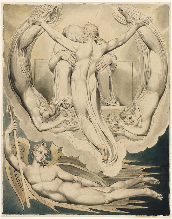 Watercolor Illustration to Milton's Paradise Lost by William Blake